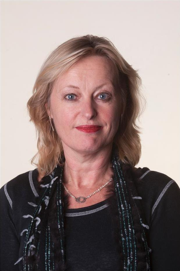 Jet Bussemaker, Dutch politican Rutte Cabinet II